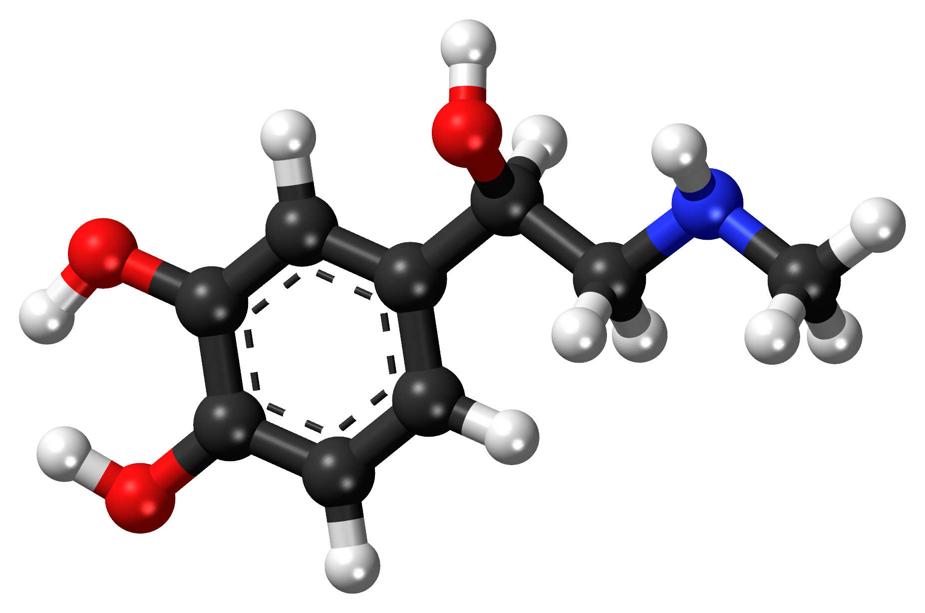 Ball-and-stick model of Epinephrine (also known as adrenaline or adrenalin) — a hormone secreted by Adrenal medulla. Created using Accelrys DS Visualizer 4.1 and Adobe Photoshop CC 2015. Colors used: Carbon, C: black Hydrogen, H: white Nitrogen, N: blue Oxygen, O: red This chemical image was created with Discovery Studio Visualizer.